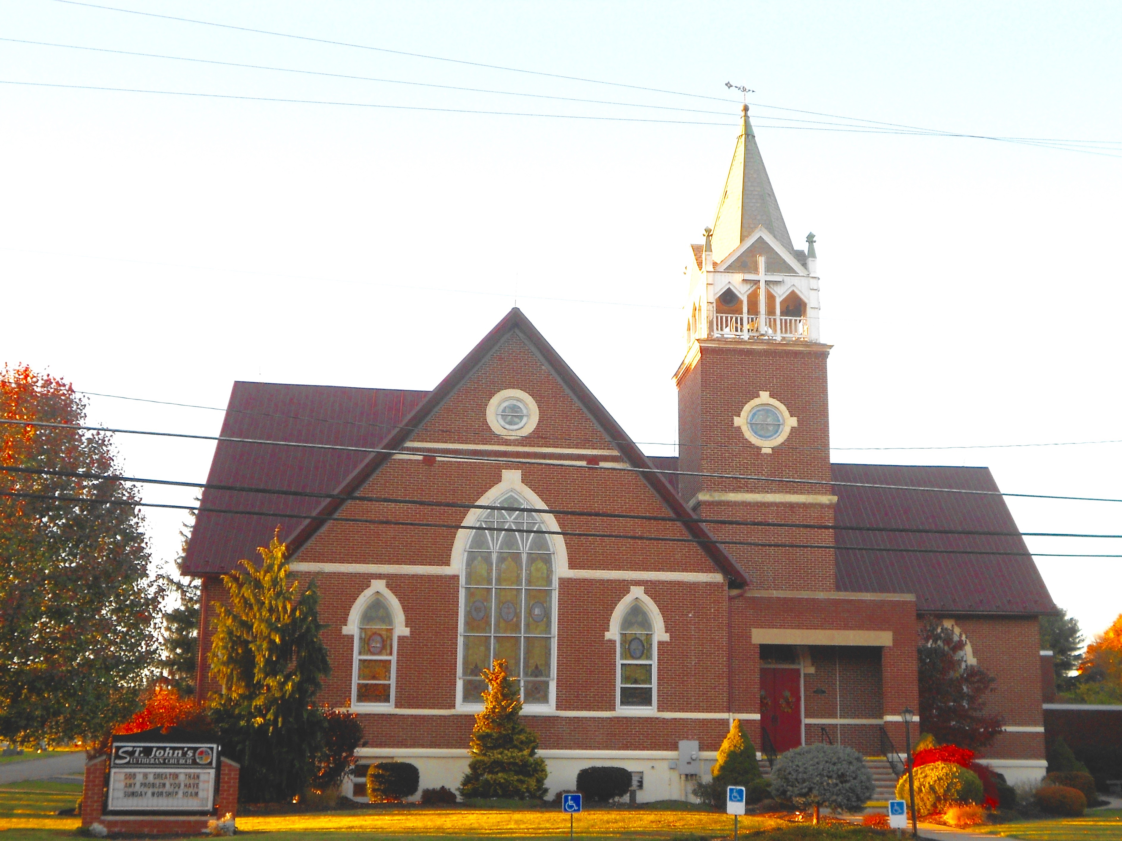 St. John's Lutheran Church in Butler Township, Luzerne County, Pennsylvania, on St. John's Road. There are 2 adjacent churches named St. John's, the other is United Church of Christ. The churches formed in 1799 as a Union Church - the Lutherans got the exclusive use of the church one Sunday, then the Reformed Church (later evolved into UCC in some places) got the exclusive use the next.